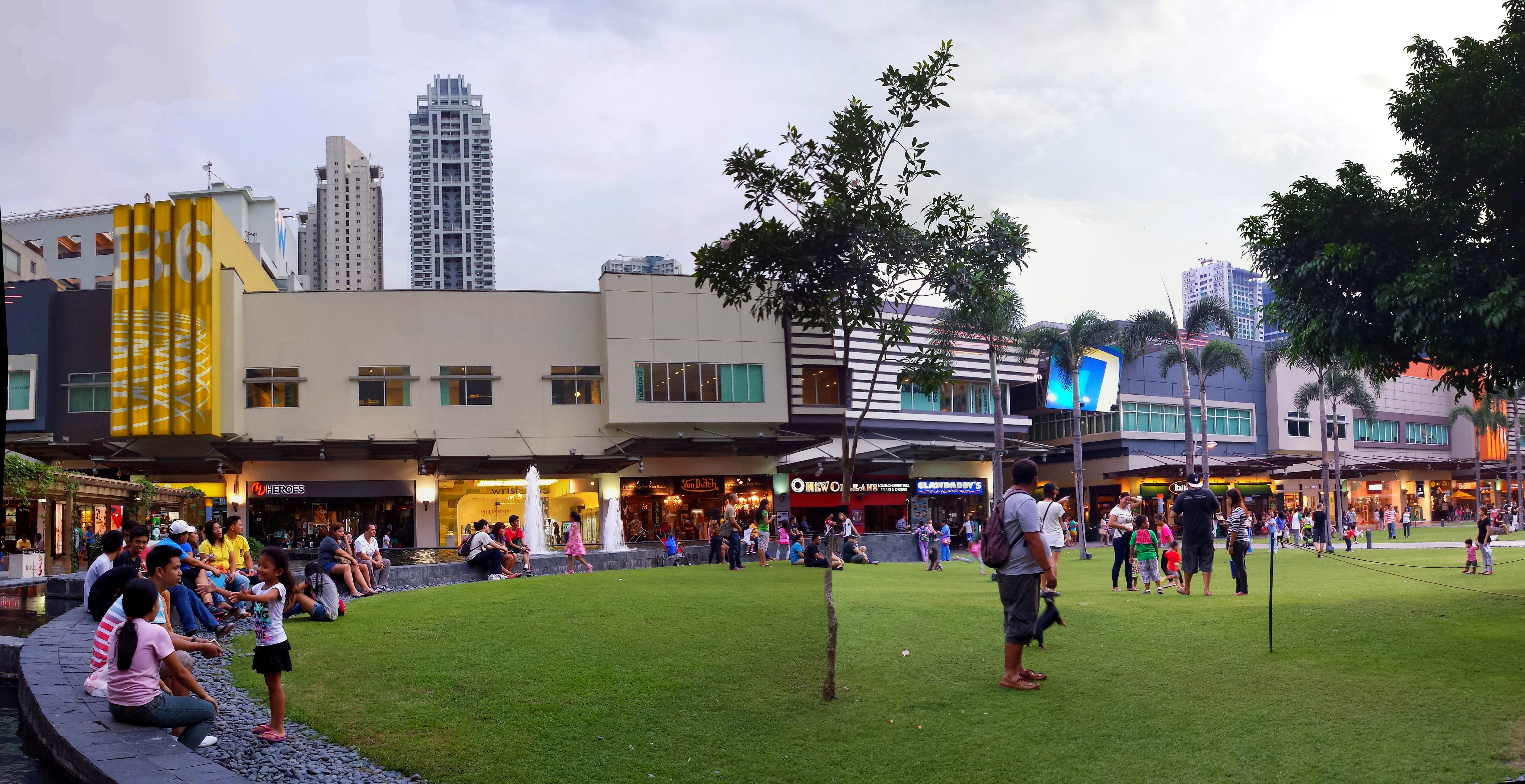 Bonifacio High Street in Bonifacio Global City, Metro Manila, Philippines.